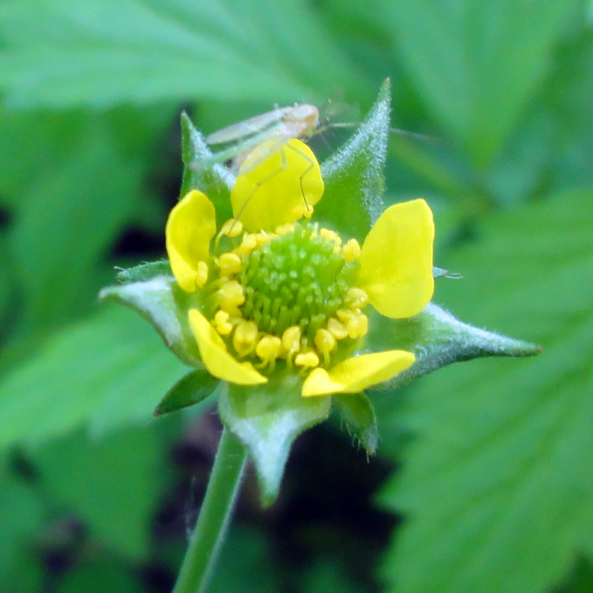 Geum urbanum (wood avens) photographed in the town of Skaneateles, New York